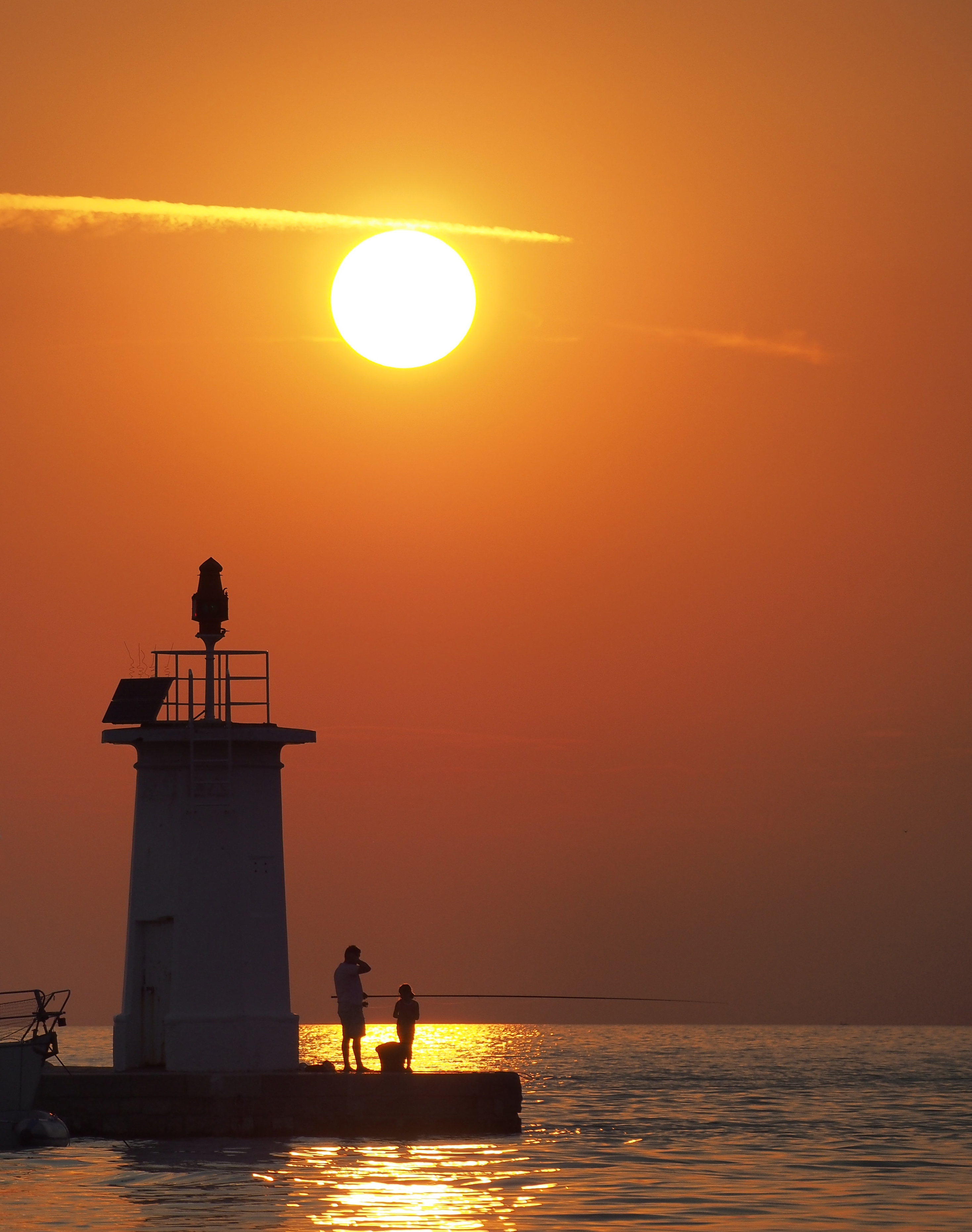 Fishing by lighthouse (Adriatic Sea) at sunset. Novigrad Breakwater (Admiralty No. E2654 NGA No. 113-11892) This photograph was taken with an Olympus E-P5